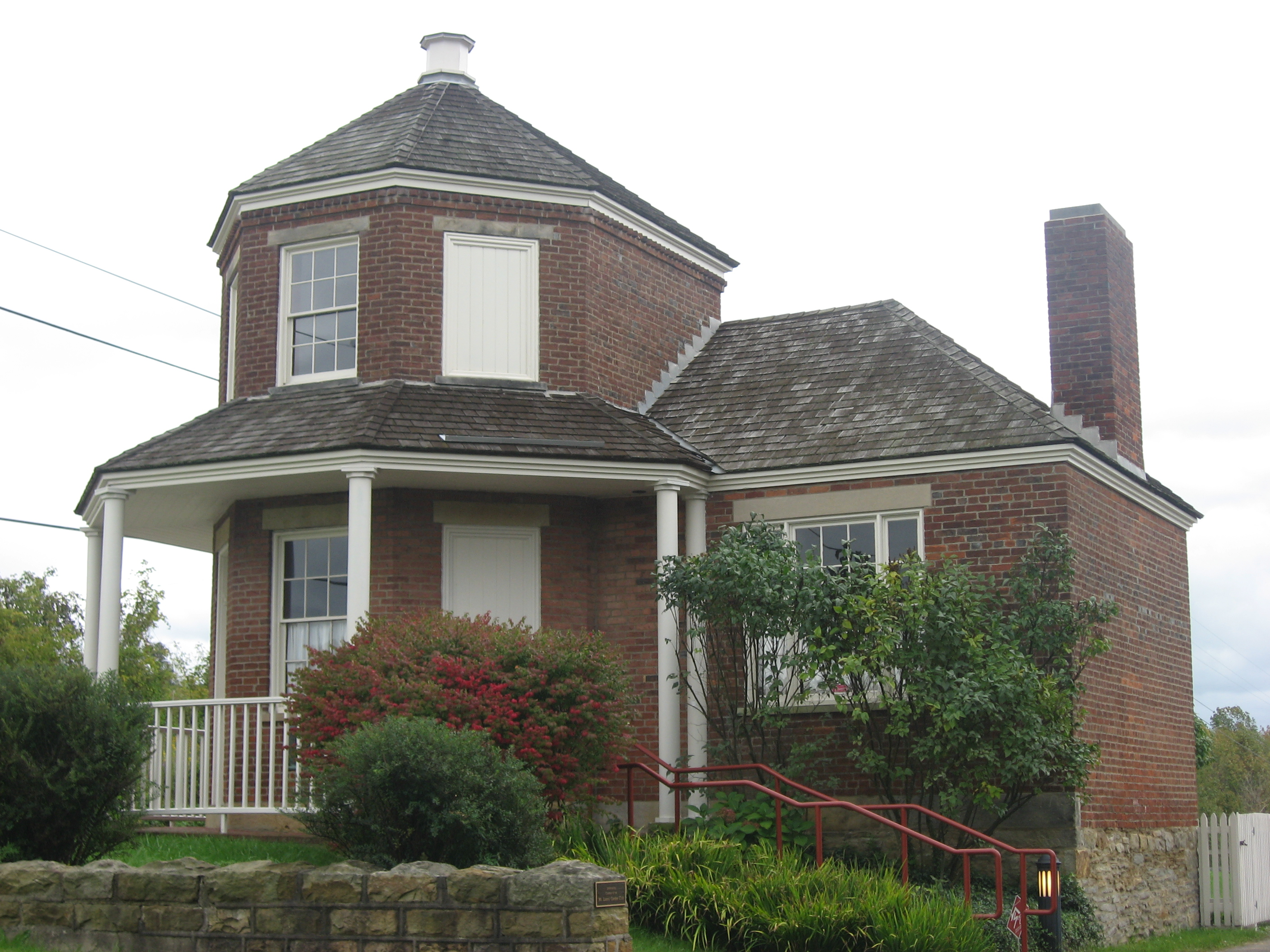 Western front of the Searights Tollhouse, located on the old National Road (now U.S. Route 40) west of Uniontown in Menallen Township, Fayette County, Pennsylvania, United States. Built in 1835 as a toll house, it has since been converted into a museum. It was designated a National Historic Landmark in 1966.